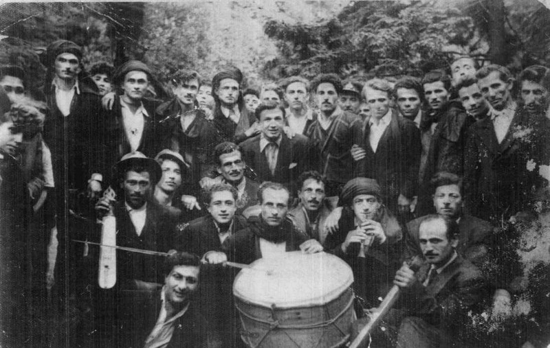 From Macuka (Matzouka, Maçka) Trabzon, Turkey. 1950's Kemençe, Davul, zurna traditional Pontic music instruments FroM.